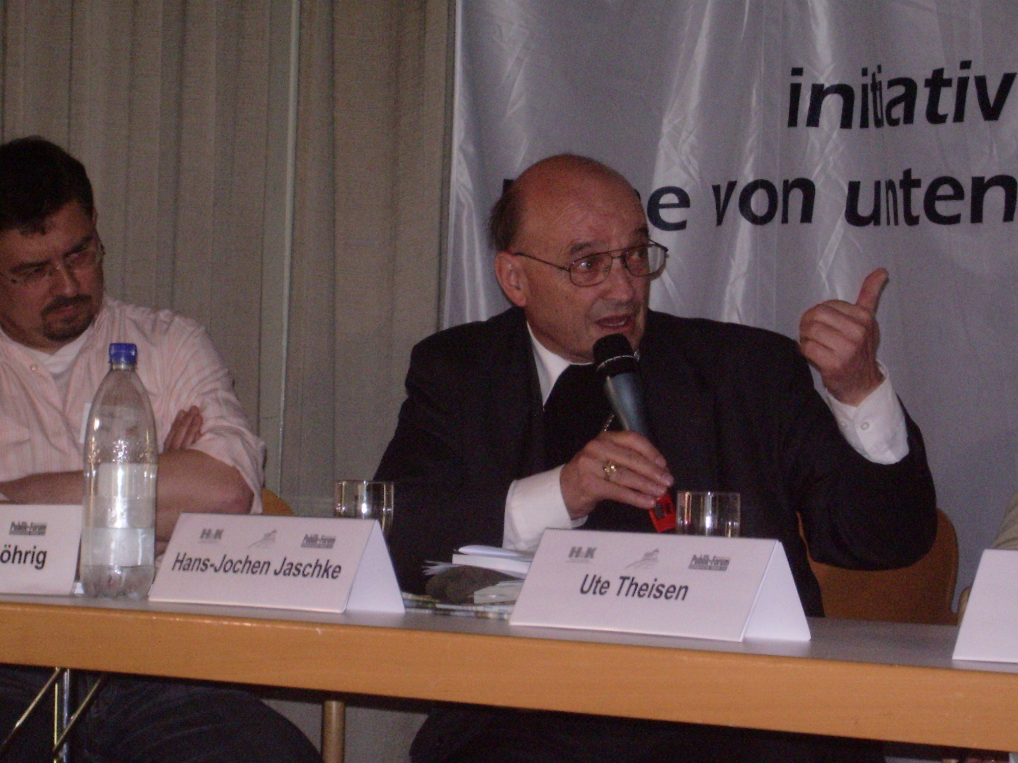 Hans-Jochen Jaschke, auxiliary bishop of Hamburg